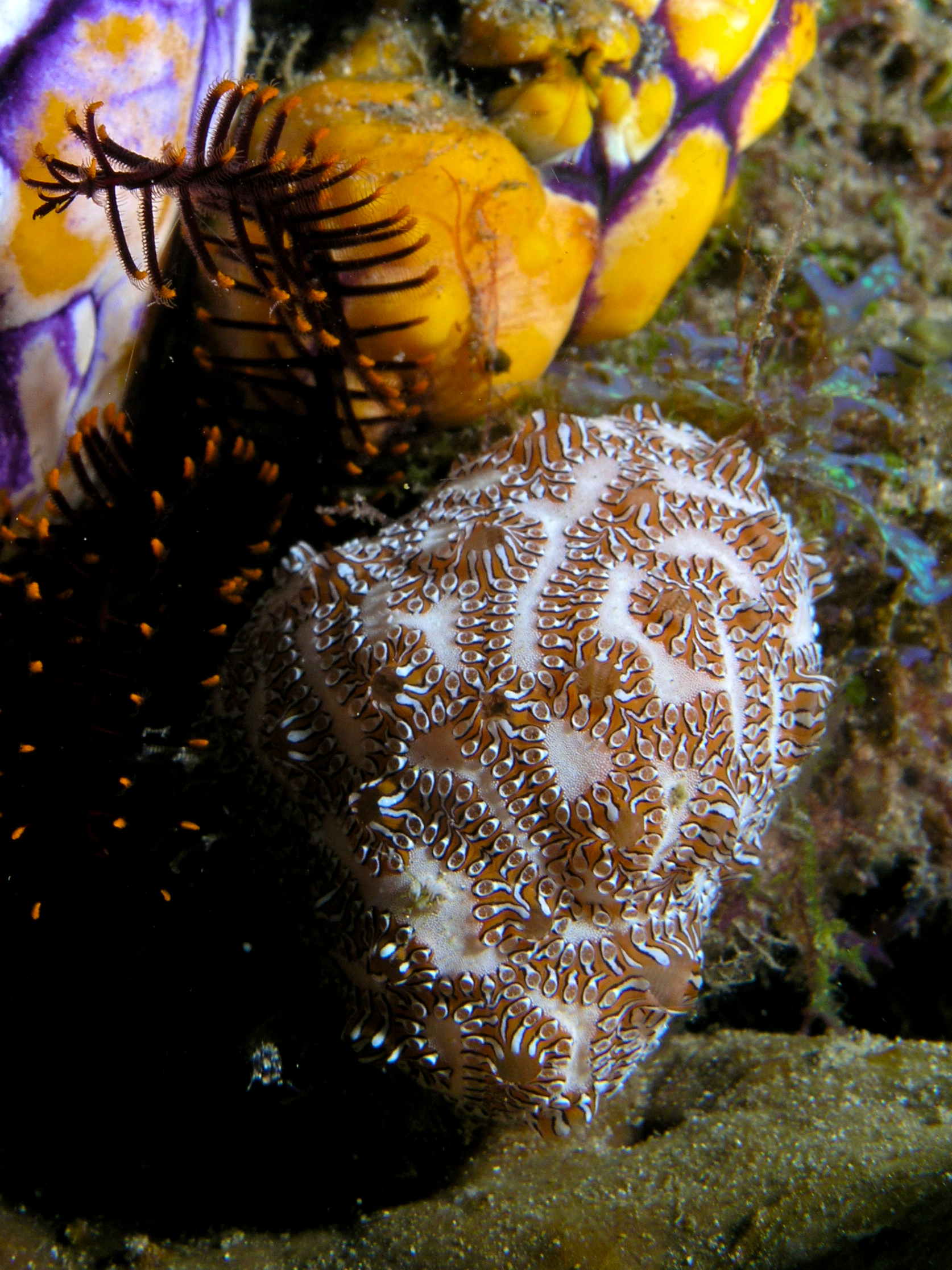 Botryllus sp. (Stolidobranch)